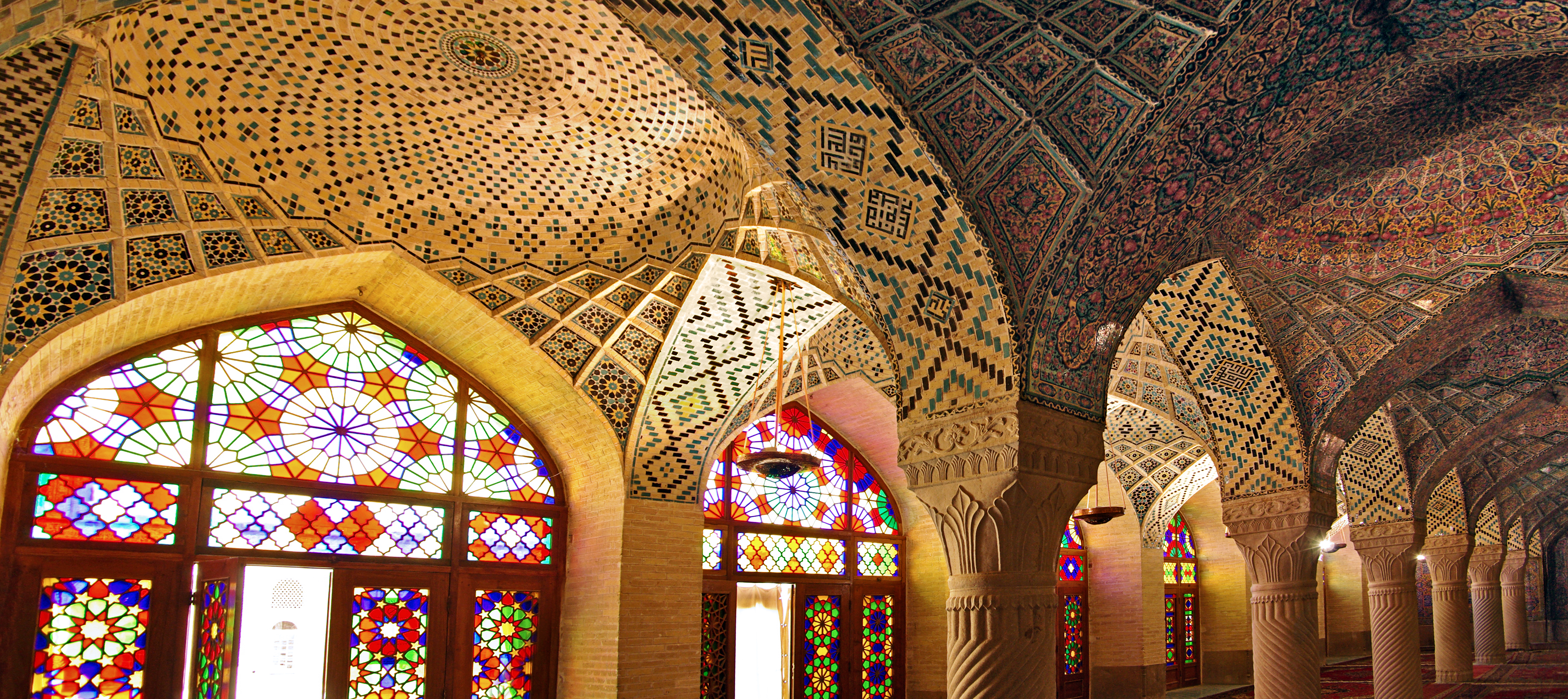 The interiour of the Nasir-ol-molk mosque in Shiraz, Iran